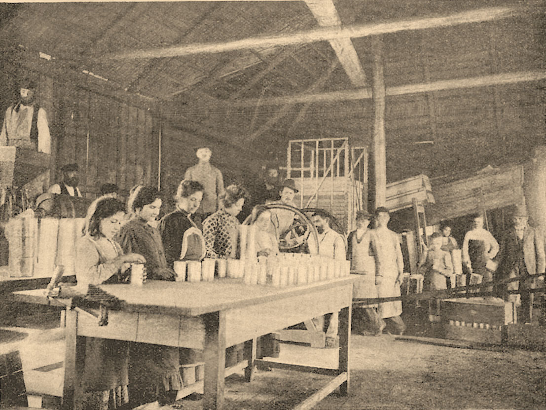 Illustration from Brockhaus and Efron Jewish Encyclopedia (1906—1913)